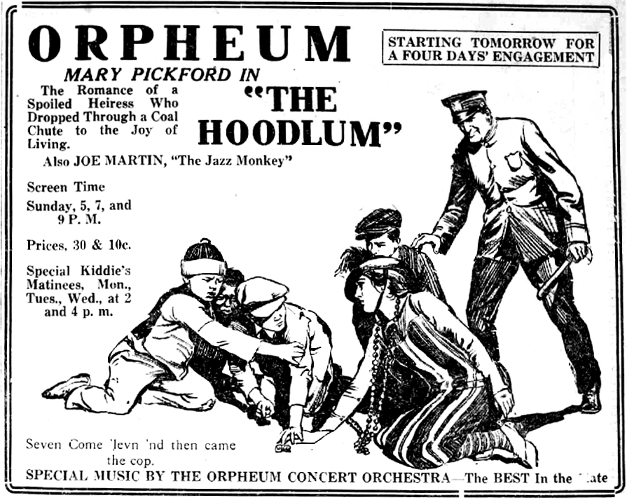 Newspaper ad for the movie "The Hoodlum", from 1919.